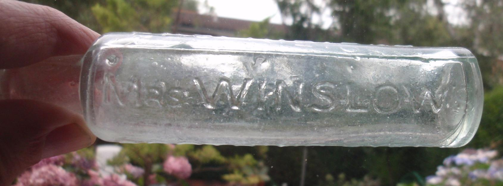 A photograph of a colourless glass bottle about 12.5 cm in length. The moulded raised inscription MRS WINSLOW'S is visible. Three other inscriptions in a similar manner on the same bottle, but not visible in this photograph are SOOTHING SYRUP; CURTIS & PERKINS; and PROPRIETORS.